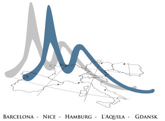 MathMods Logo